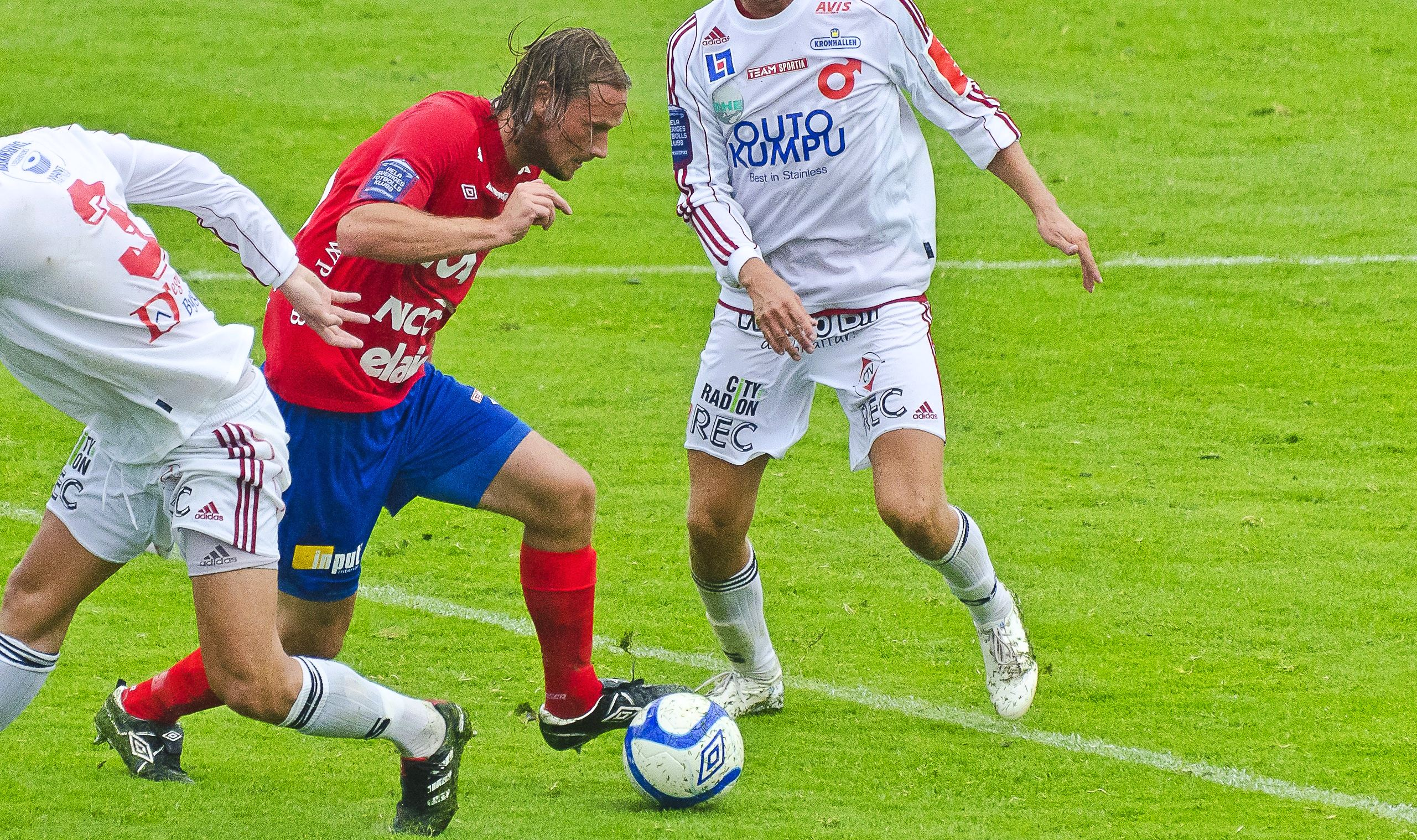 Midfielder Patrik Bojent attacking against Degerfors, July 2011.